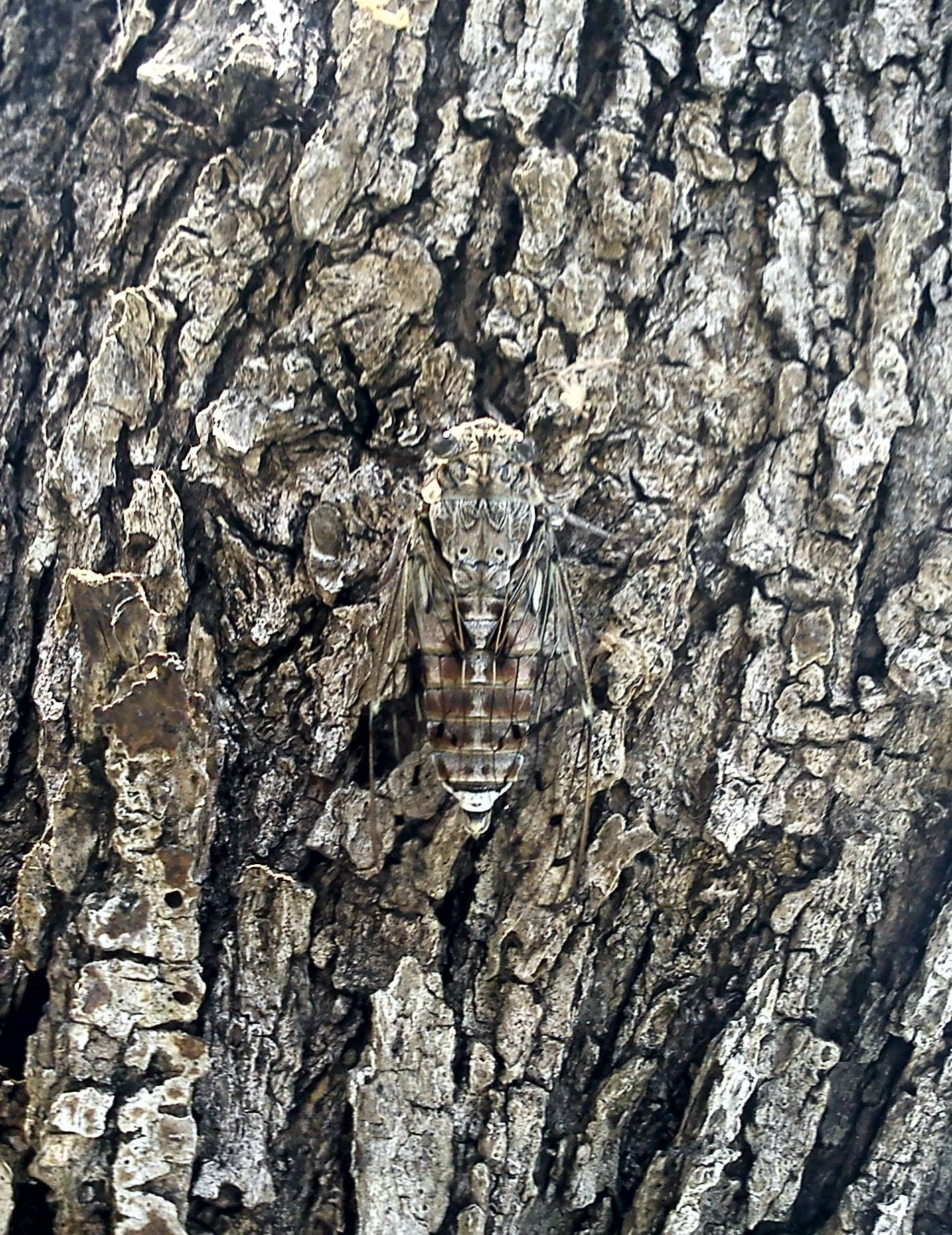 Cicada camouflaged on an olive tree. Kassiopi, Corfu, Greece.